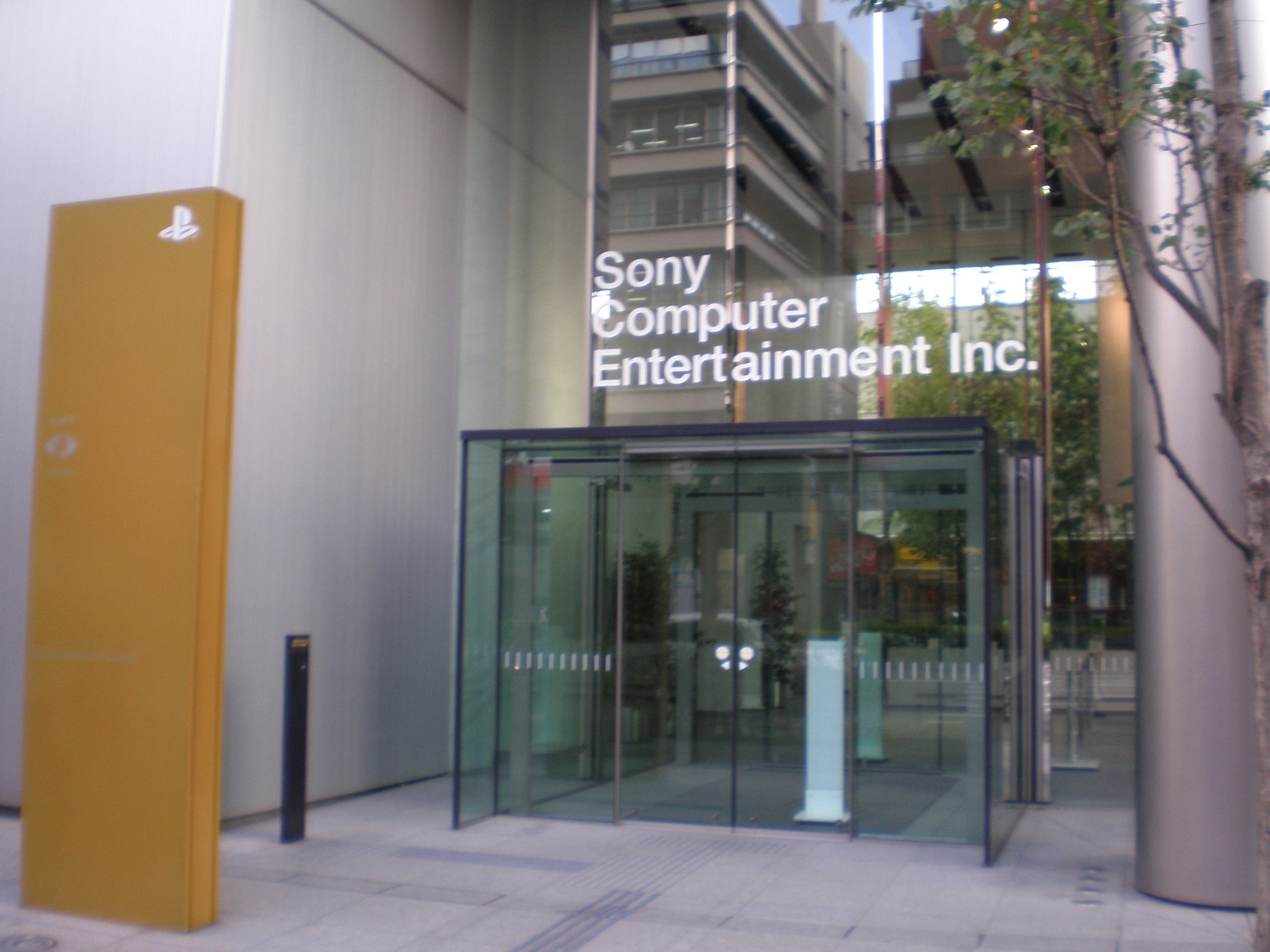 TK Minamiaoyama Bldg. (TK南青山ビル), located at Minami-Aoyama, Minato, Tokyo, Japan. Sony Computer Entertainment Inc. (株式会社ソニー・コンピュータエンタテインメント) is headquarterd in this building.